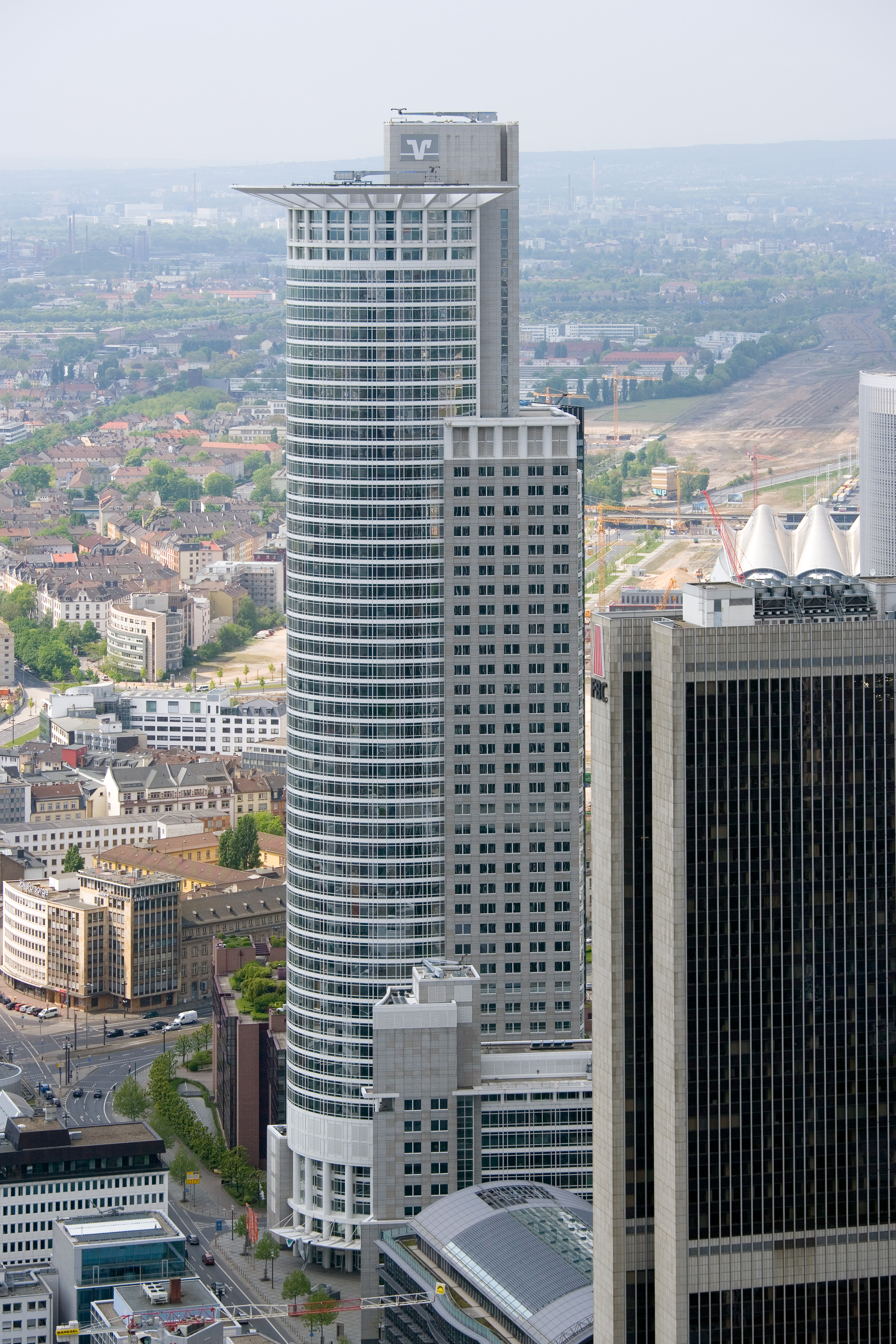 Frankfurt on the Main: Westend Tower as seen from the Maintower